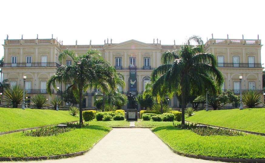 Paço de São Cristóvão, former imperial palace of the Emperors of Brazil. It currently houses the National Museum of Brazil.